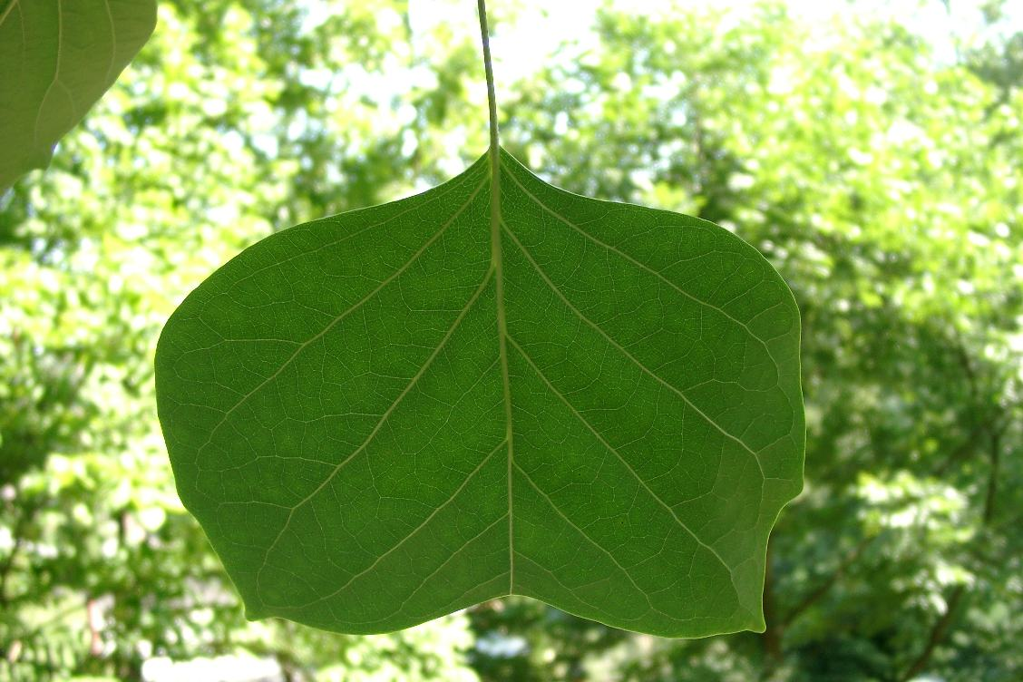 leaf of the tulip tree cultivar Liriodendron tulipifera 'Integrifolium' (back side)